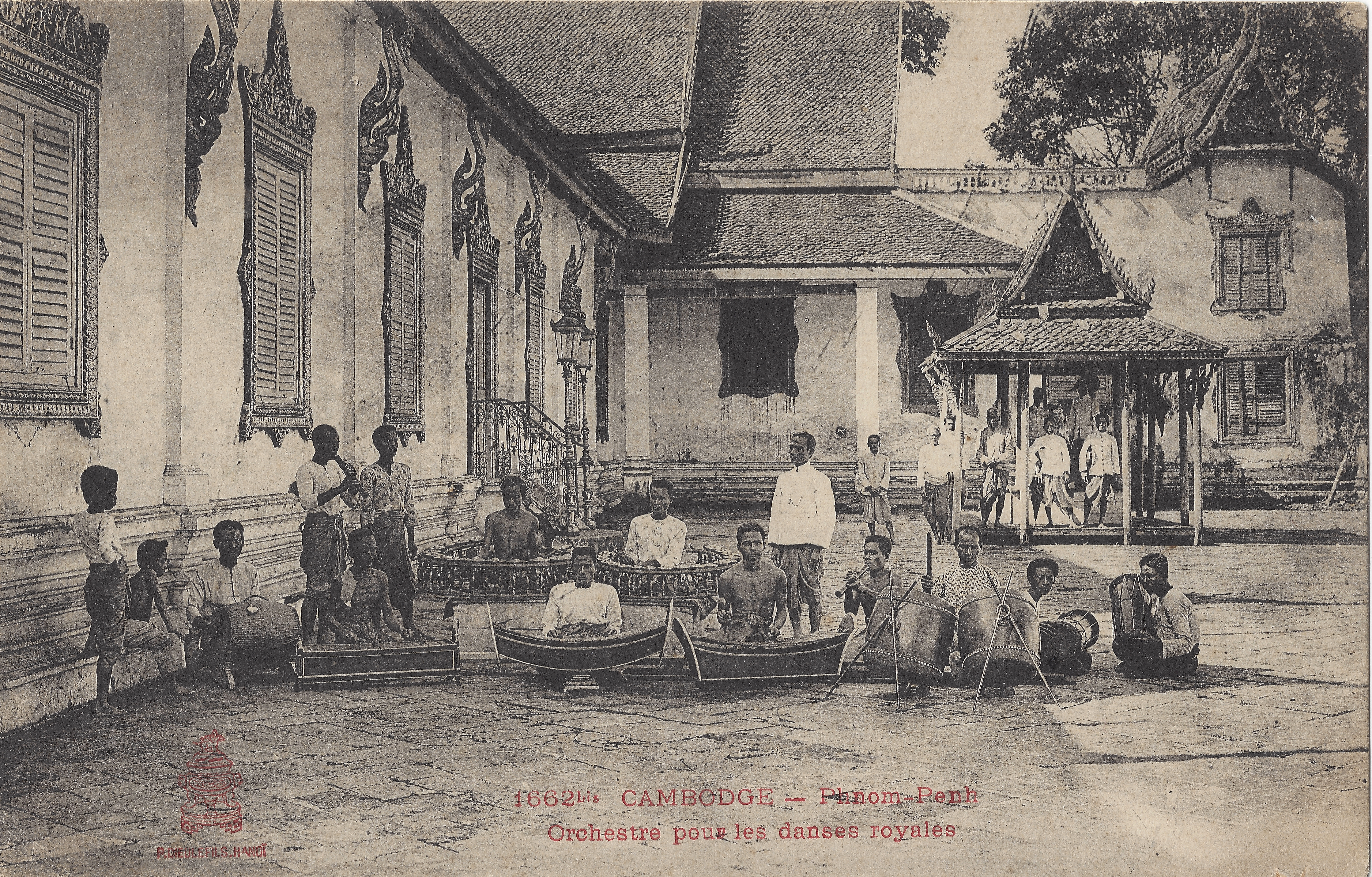 Postcard 1662 by Pierre Dieulefils (mailed in Hanoi, 1907) depicting a Cambodian orchestra, labeled "Orchestre pour les dances royales" (Orchestra for royal dances), at Phnom Penh, Cambodia. Dieulefils was a French photographer who lived in Hanoi and took pictures in both Vietnam and Cambodia, and published his images in Hanoi as postcards. Instruments from the left: front row: samphor drum, roneat dek (metalophone), roneat ek (bamboo xylophone), roneat thung (bamboo xylophone), sralai reed pipe, skor thom drums, other drums. Back row from the left: sralai, kong von thom, kong von toch.